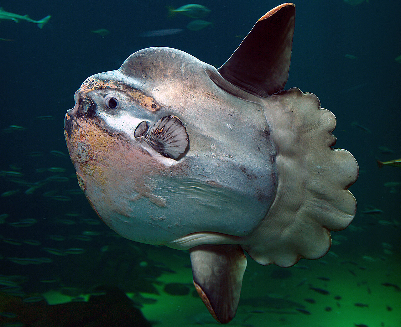 An ocean sunfish in Nordsøen Oceanarium, Hirtshals, Denmark